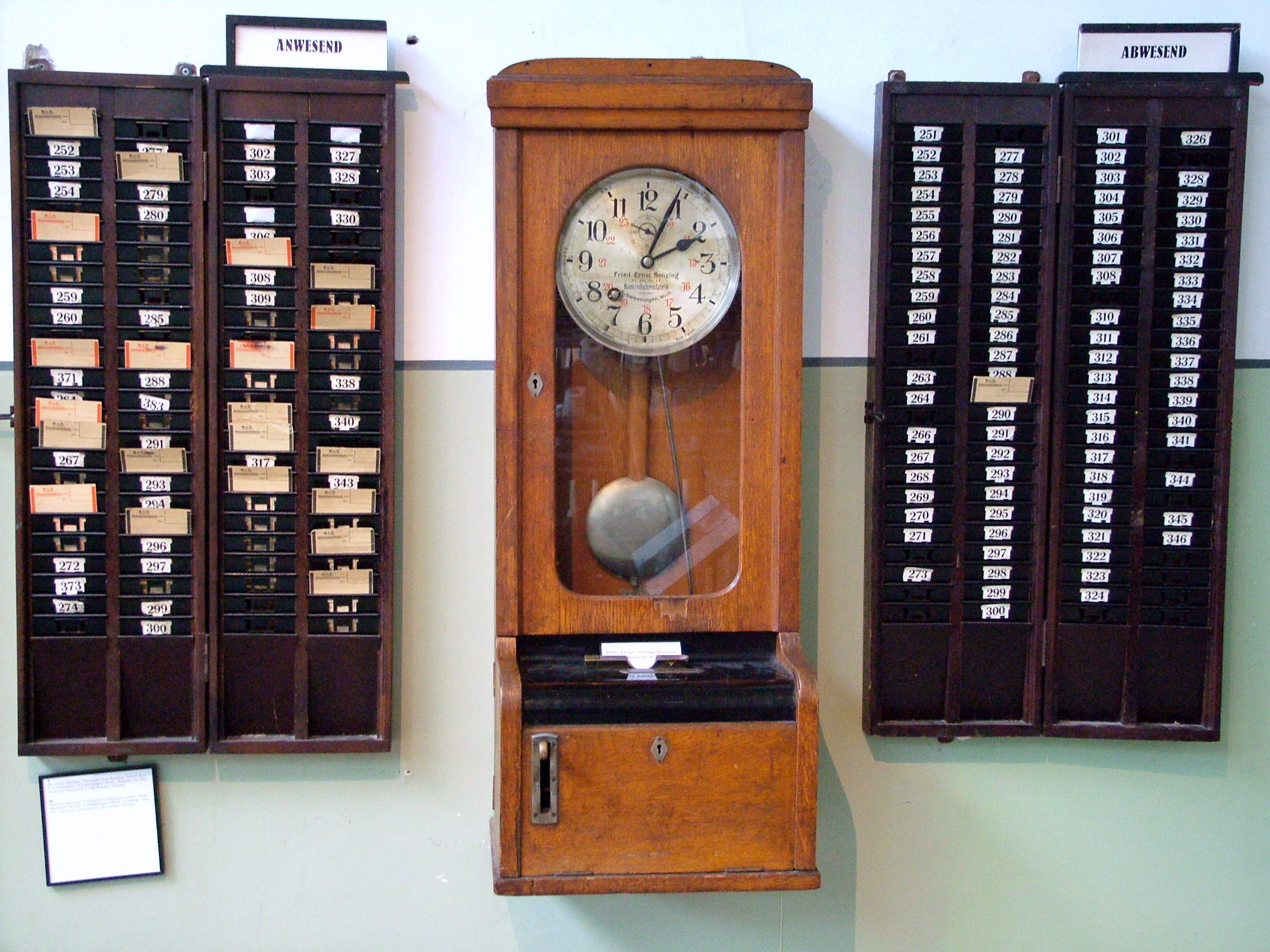 Early time clock, Textile Museum, Bocholt, Germany